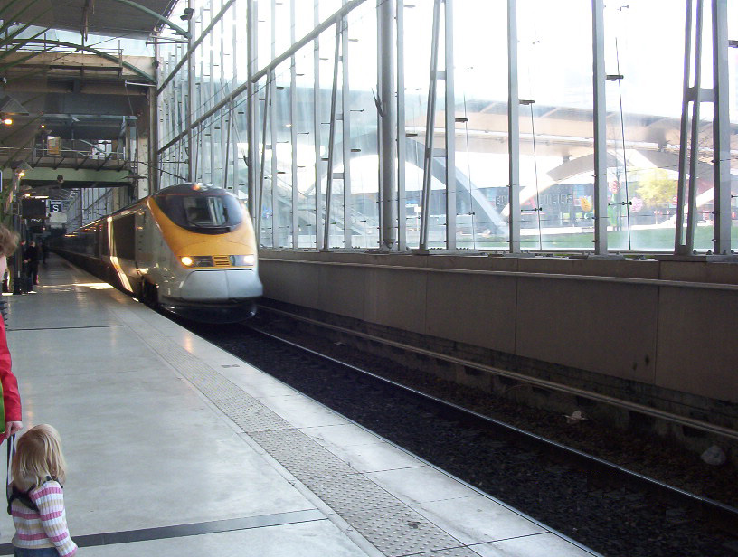 London bound Eurostar train pulling into Lille station. No Watermark version.